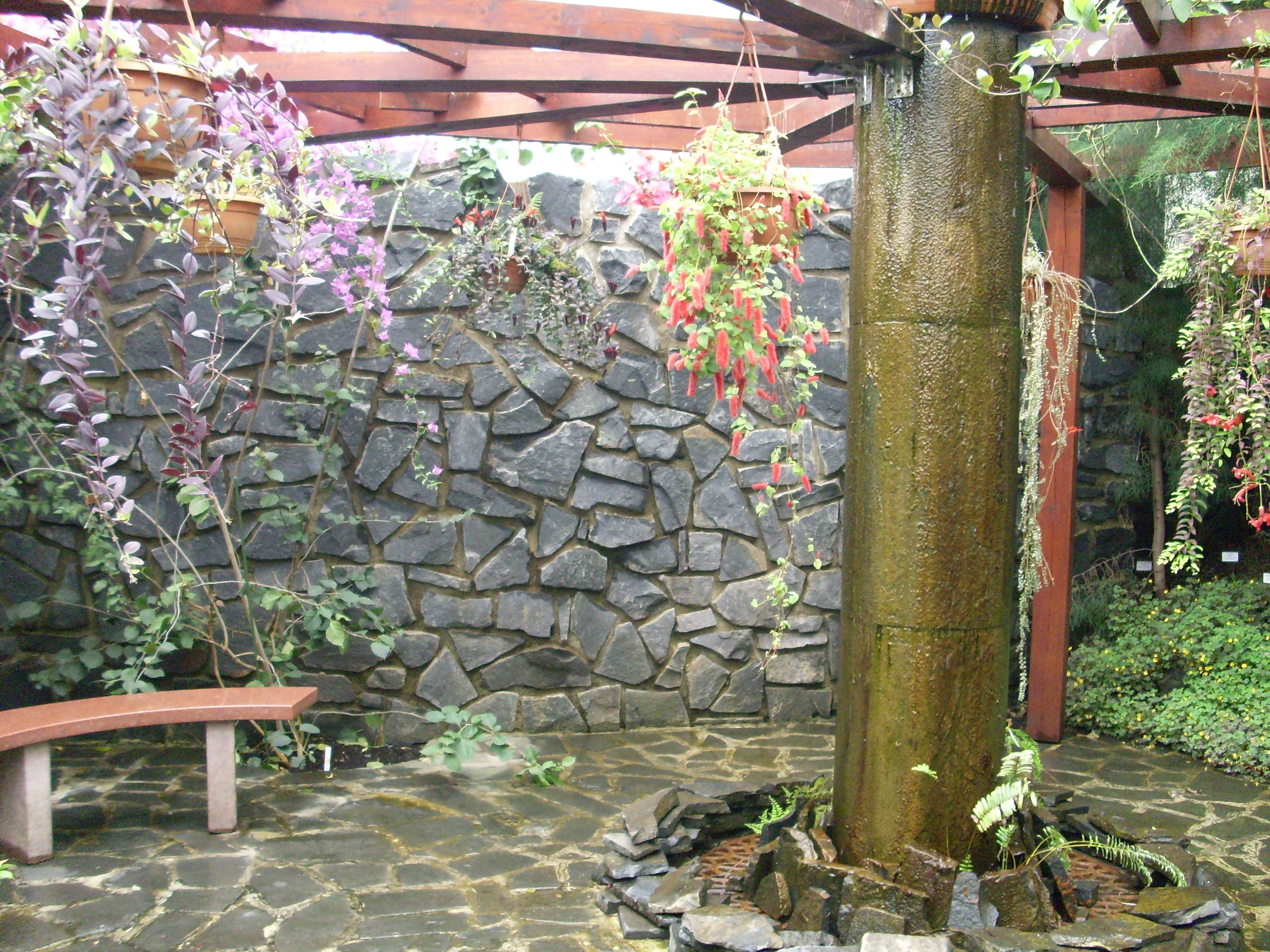 rest place in greenhouse in Botanical garden in Teplice-2008